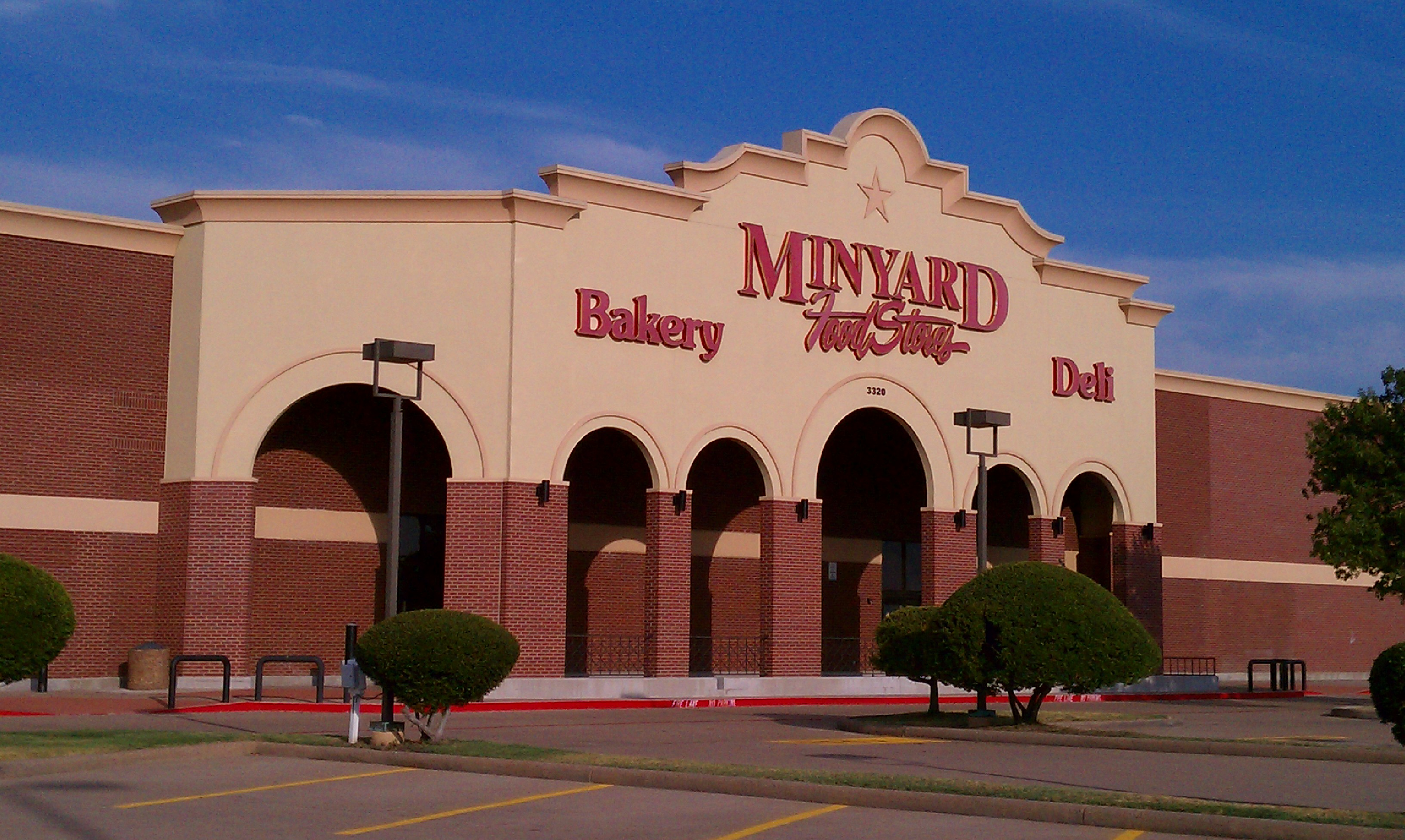 Minyards Plano Ave K and Parker Rd